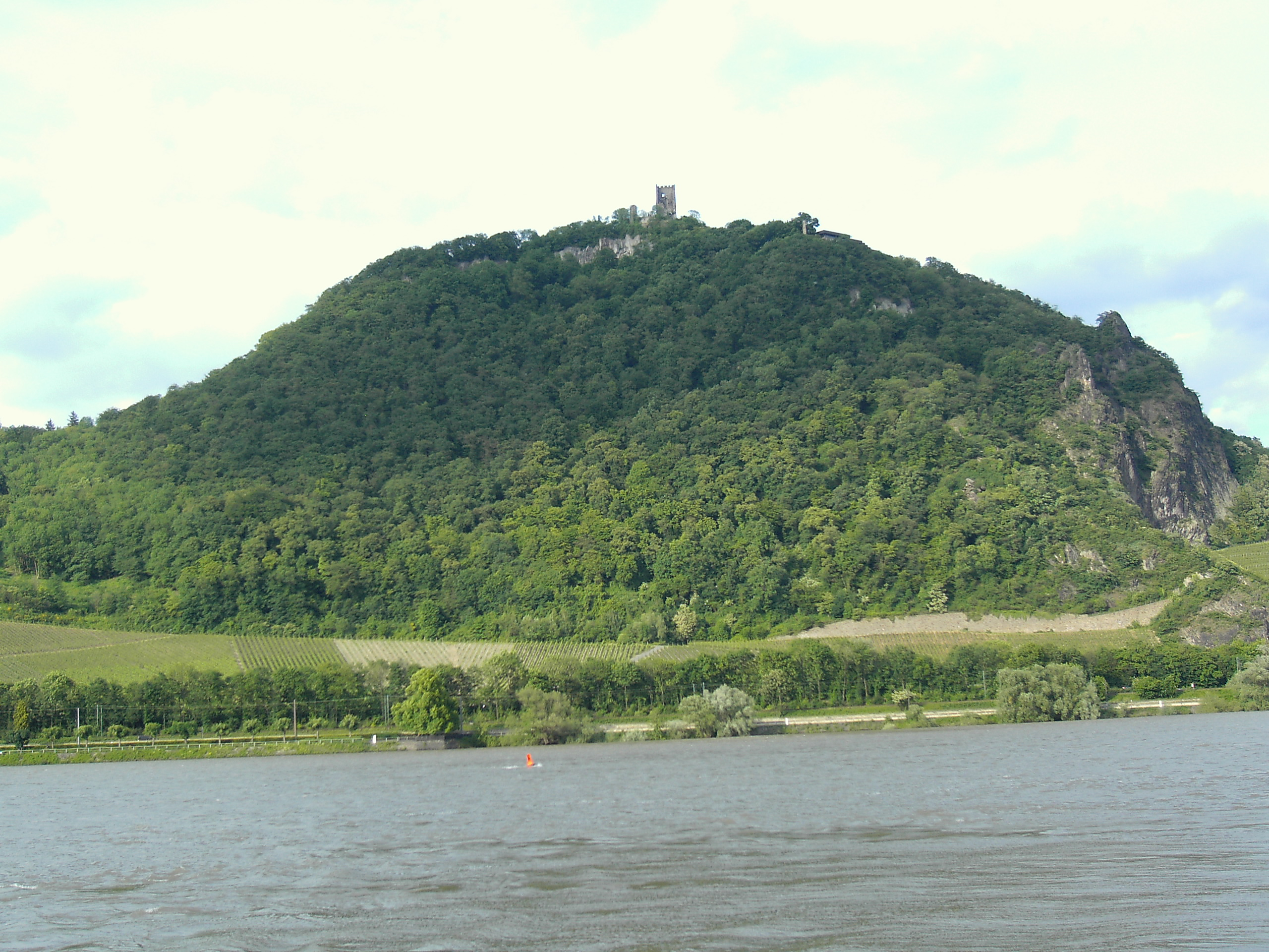 The Drachenfels in the Siebengebirge seen from the other side of the rhine in Bonn-Mehlem.